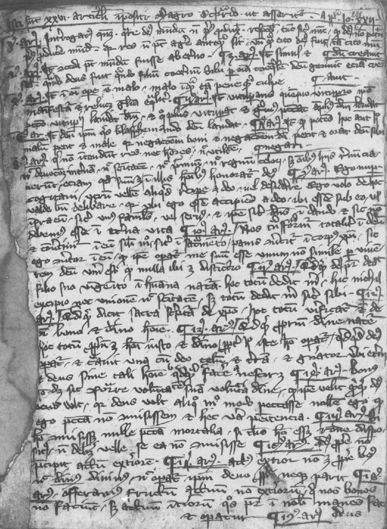 copy of the papal bull In agro dominico